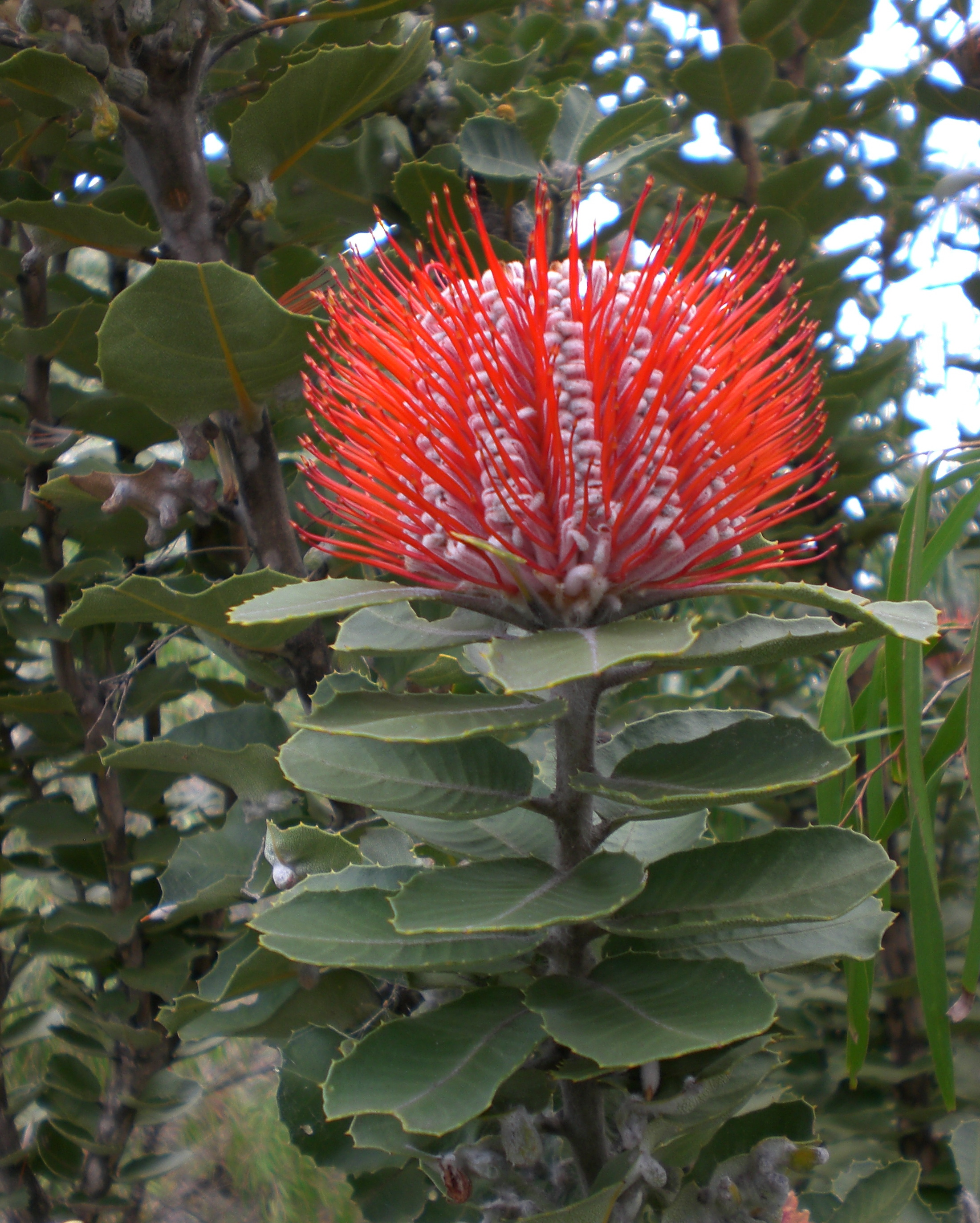 A snapshot of Banksia coccinea, taken near the Middleton Beach golf course, Albany, Western Australia. It was windy, the camera was rubbish, and I was rushing off. The habitat is relatively undisturbed bushland surrounding the course.